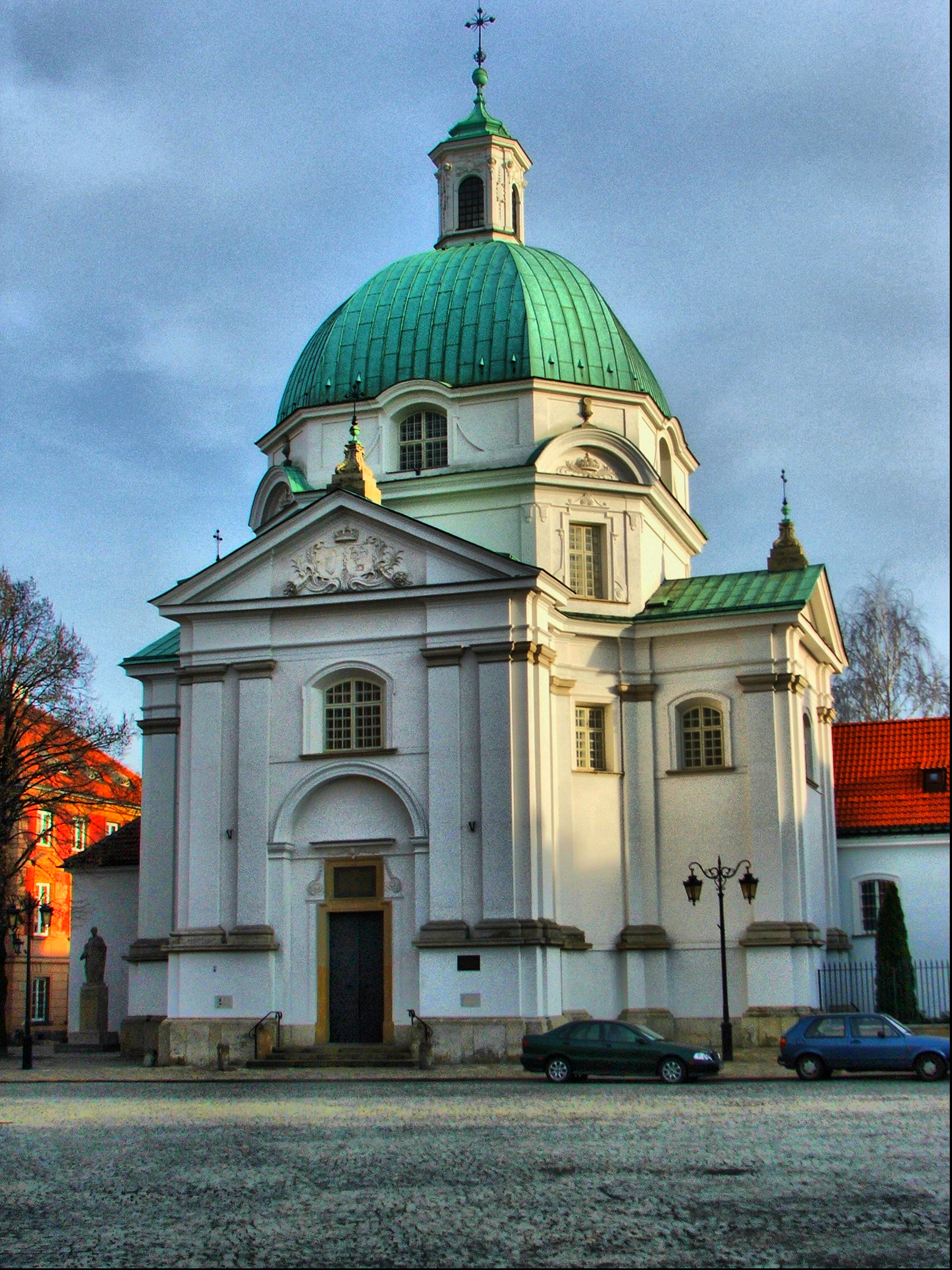 St. Kazimierz Church in Warsaw's